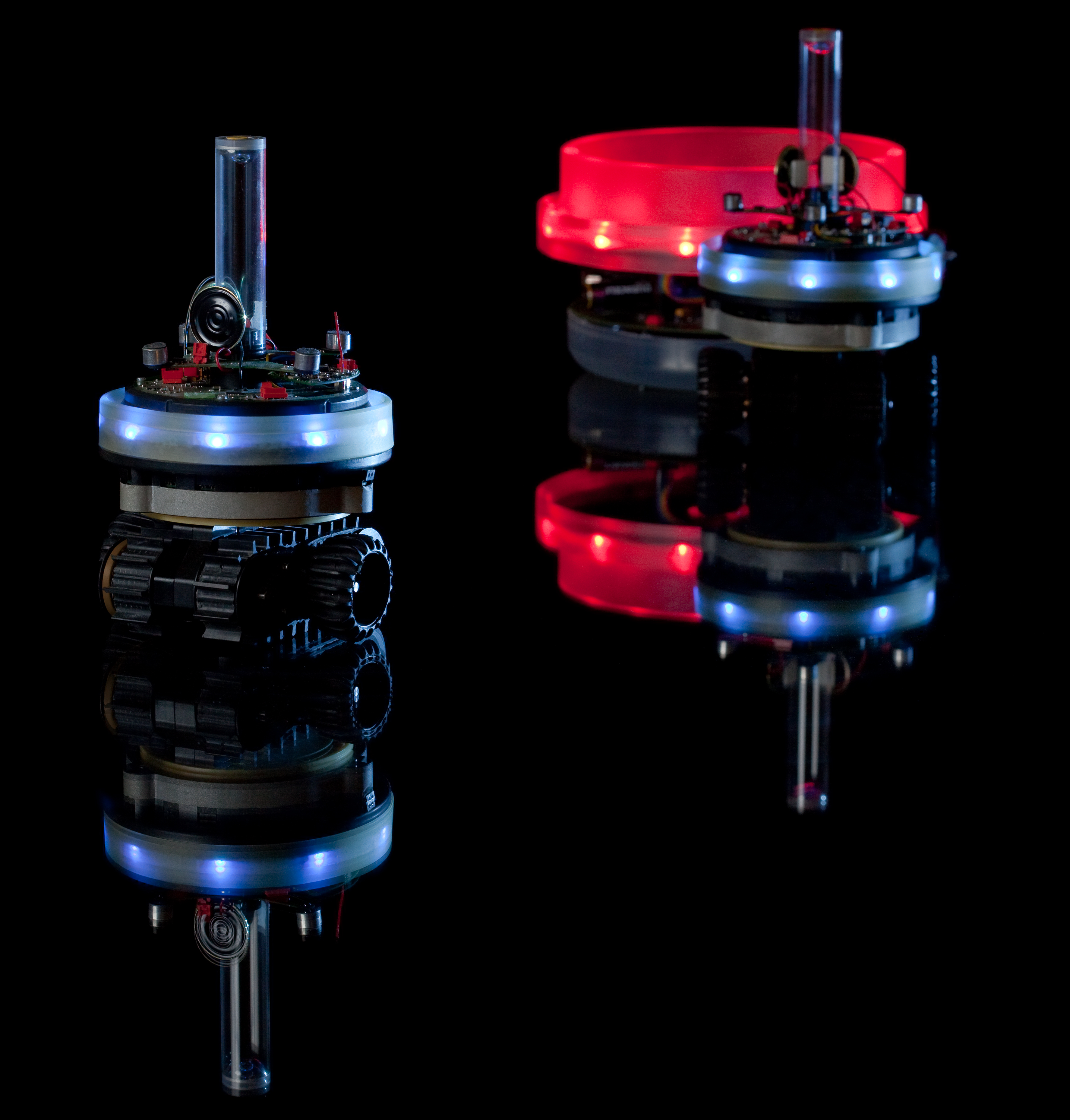 Two Sbot robots ( and a food token.